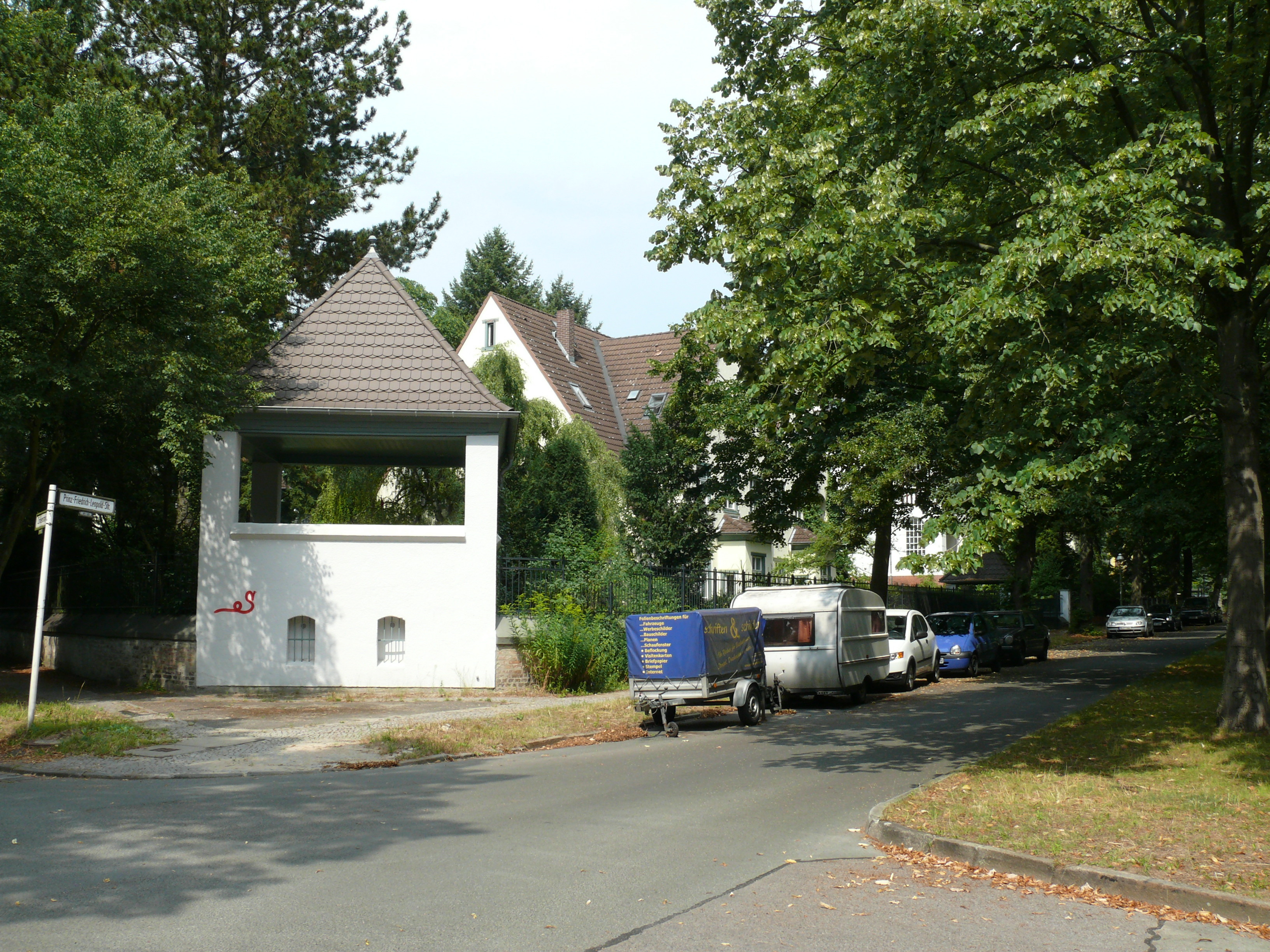 Berlin-Nikolassee Prinz-Friedrich-Leopold-Straße